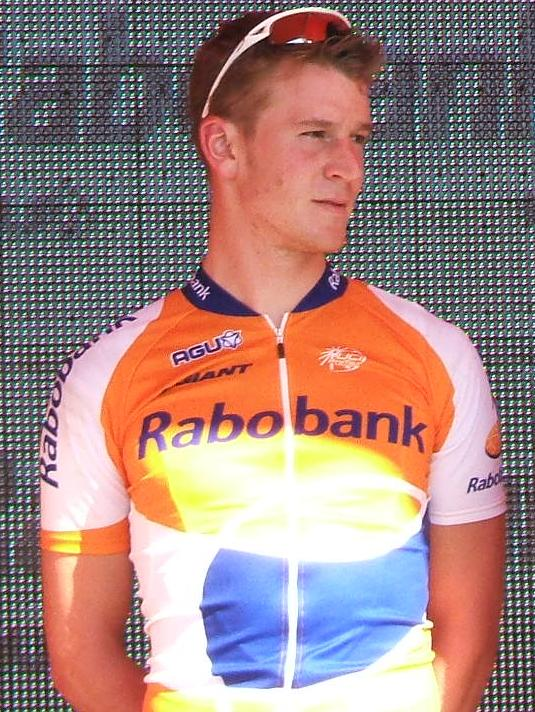 Named cyclist at the en:2009 Tour Down Under team presentation